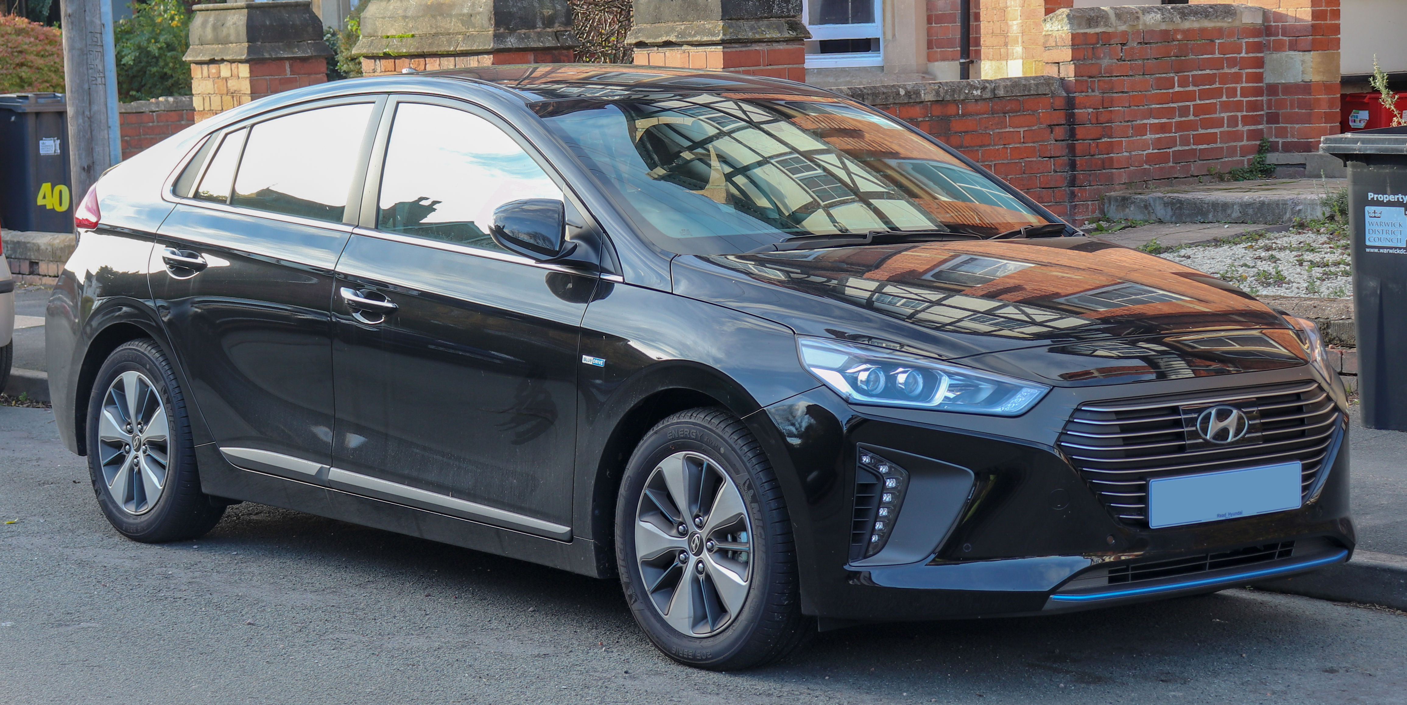 2018 Hyundai Ioniq Premium SE PHEV S-A 1.6 Front Taken in Leamington Spa